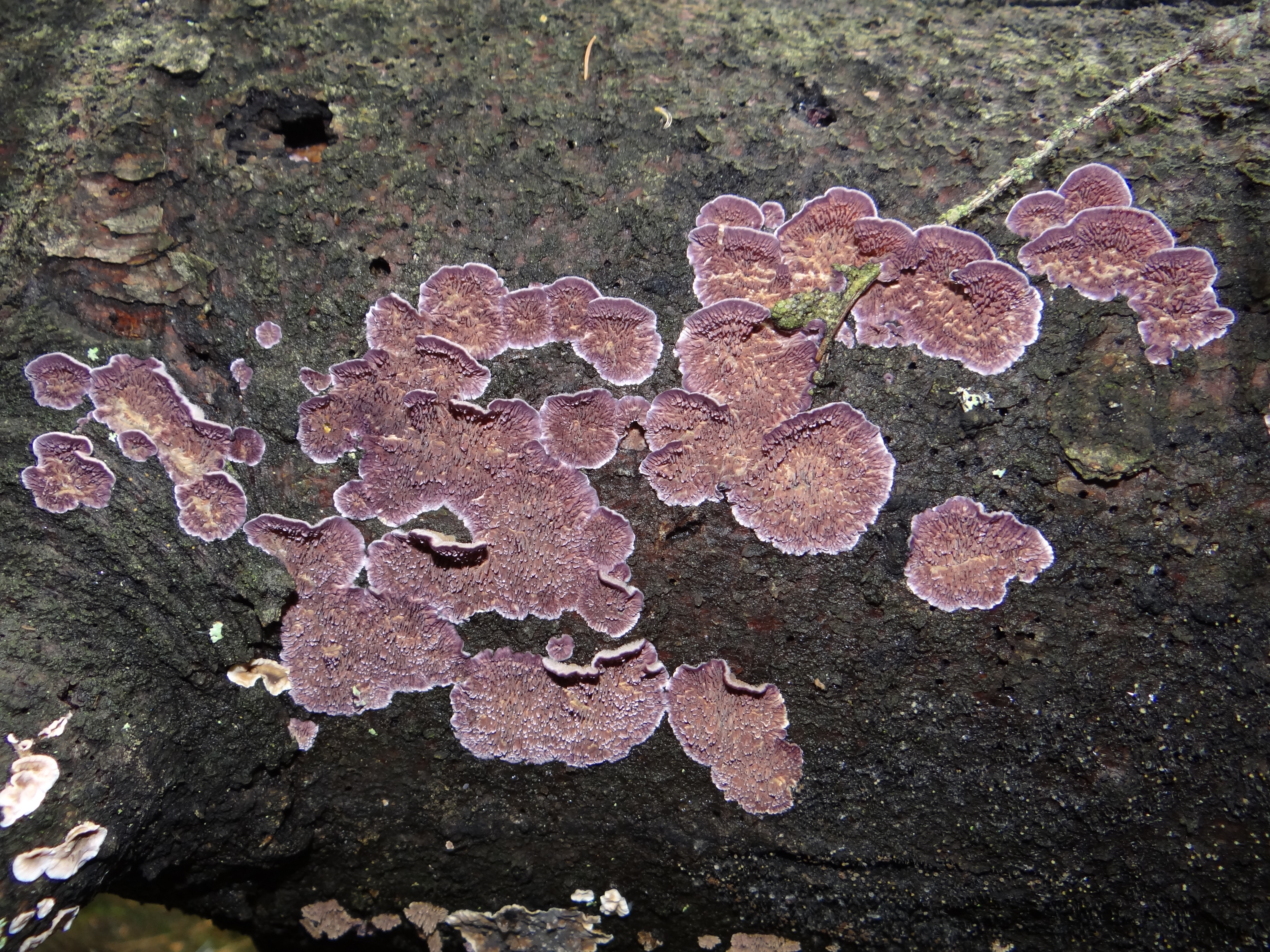 Trichaptum fuscoviolaceum (on Abies alba)